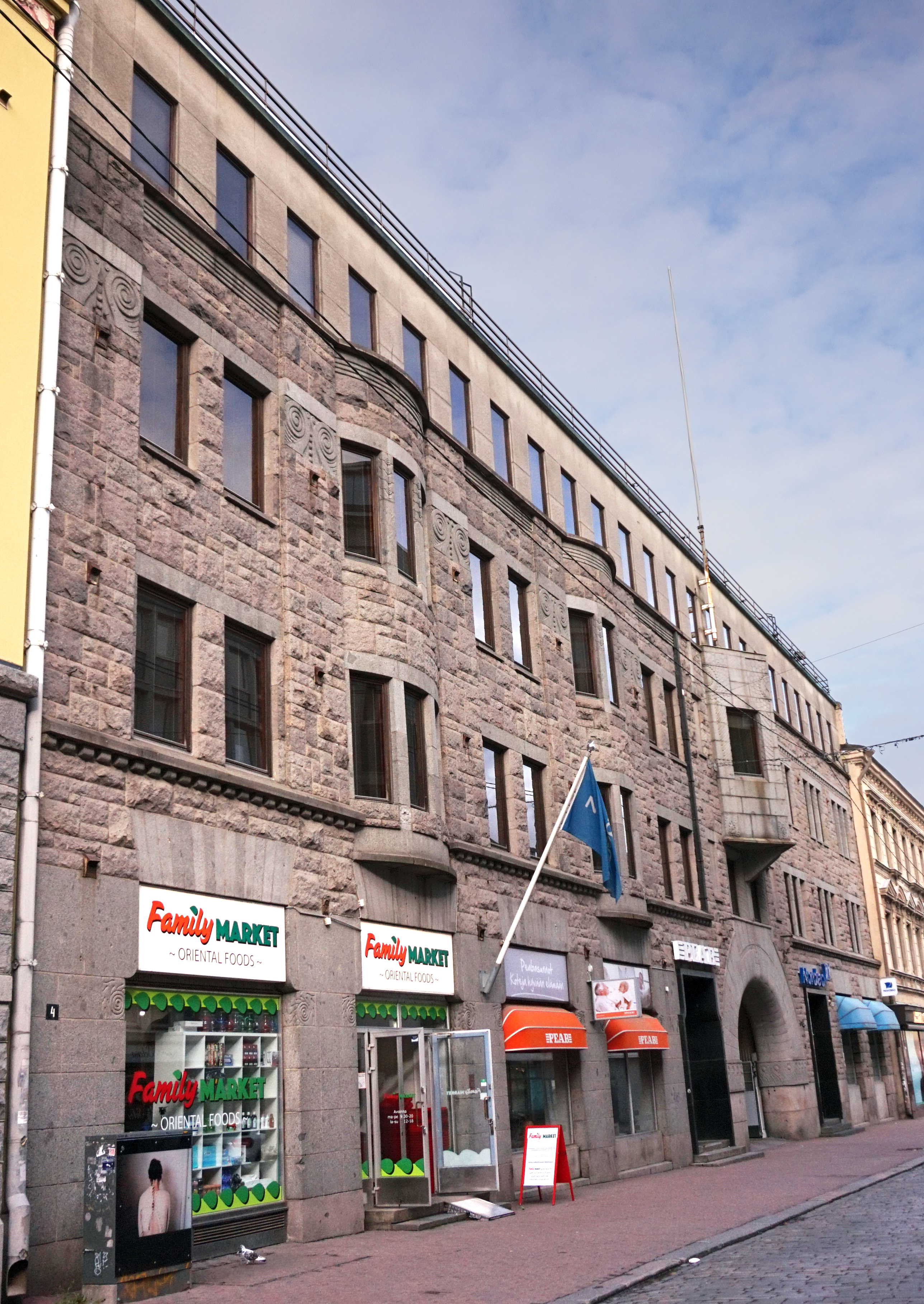 Kauppakatu 4, Tampere.This photograph was taken with a Sony ILCE-5000